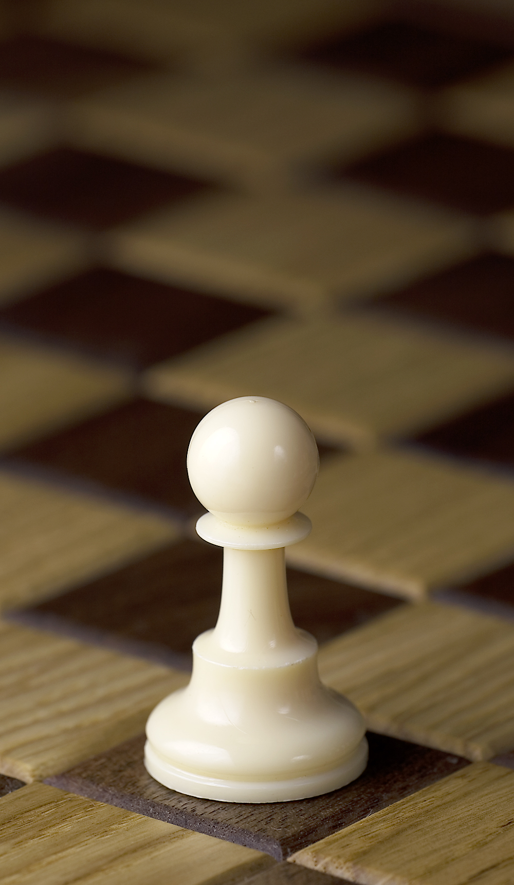 Chess piece - White pawn, Staunton design